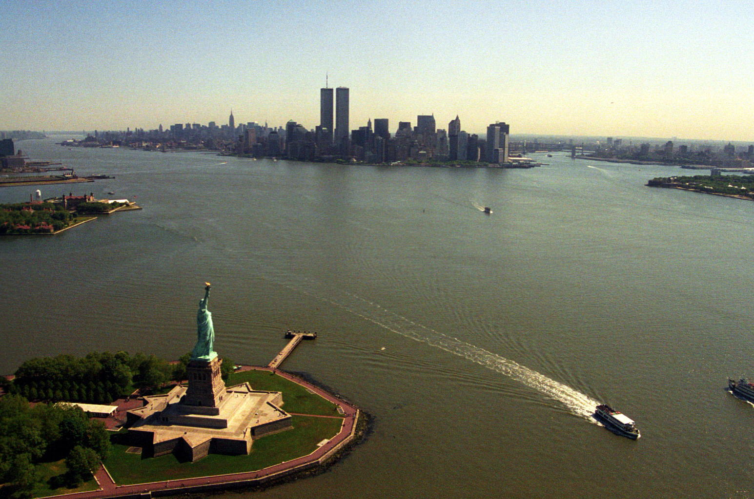 View of Manhattan from a helicopter, flying over Upper New York Bay. The towers destroyed in the September 11 attacks can also be seen on the island of Manhattan.}